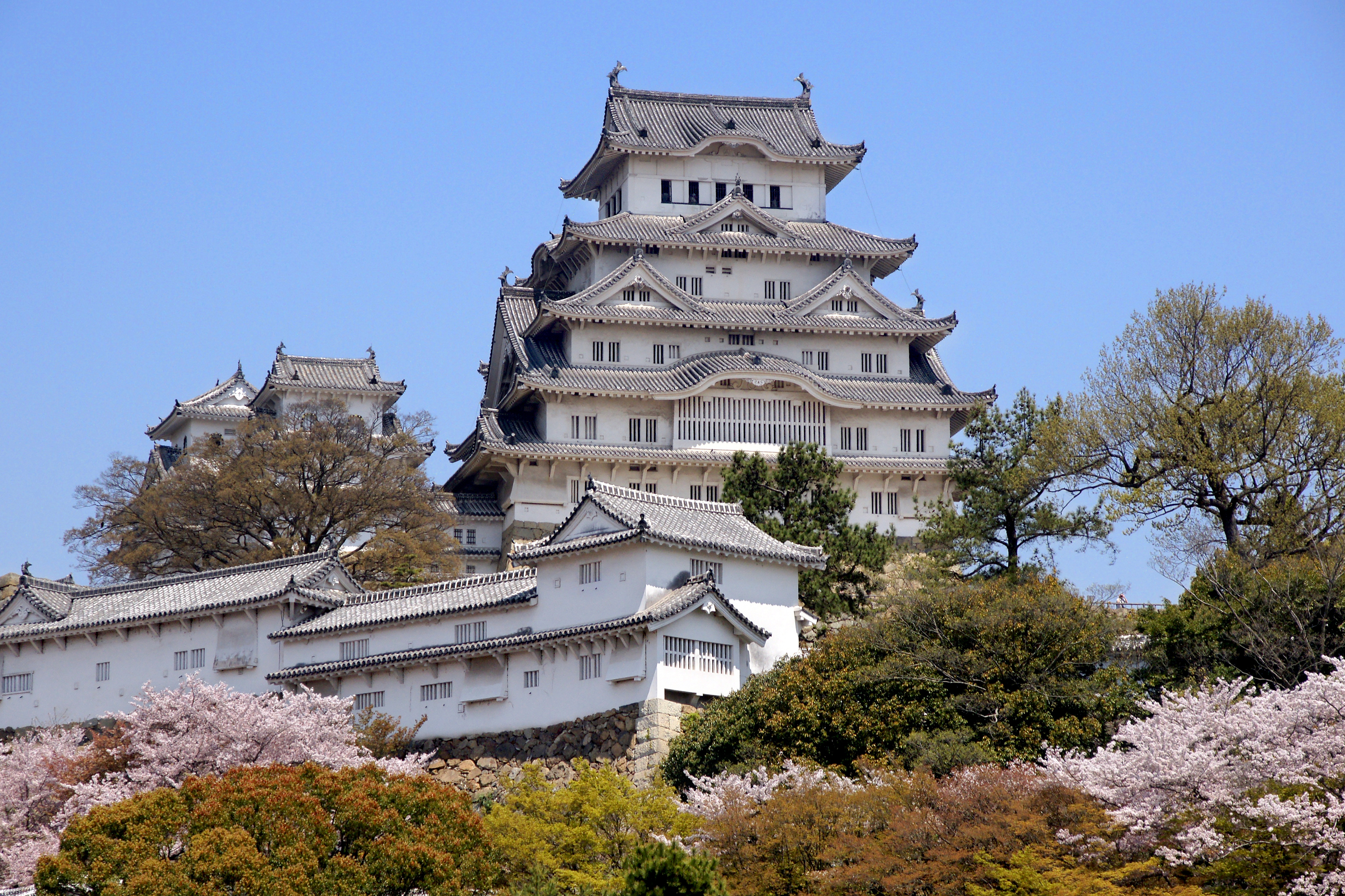 Himeji Castle, Himeji, Hyogo prefecture, Japan